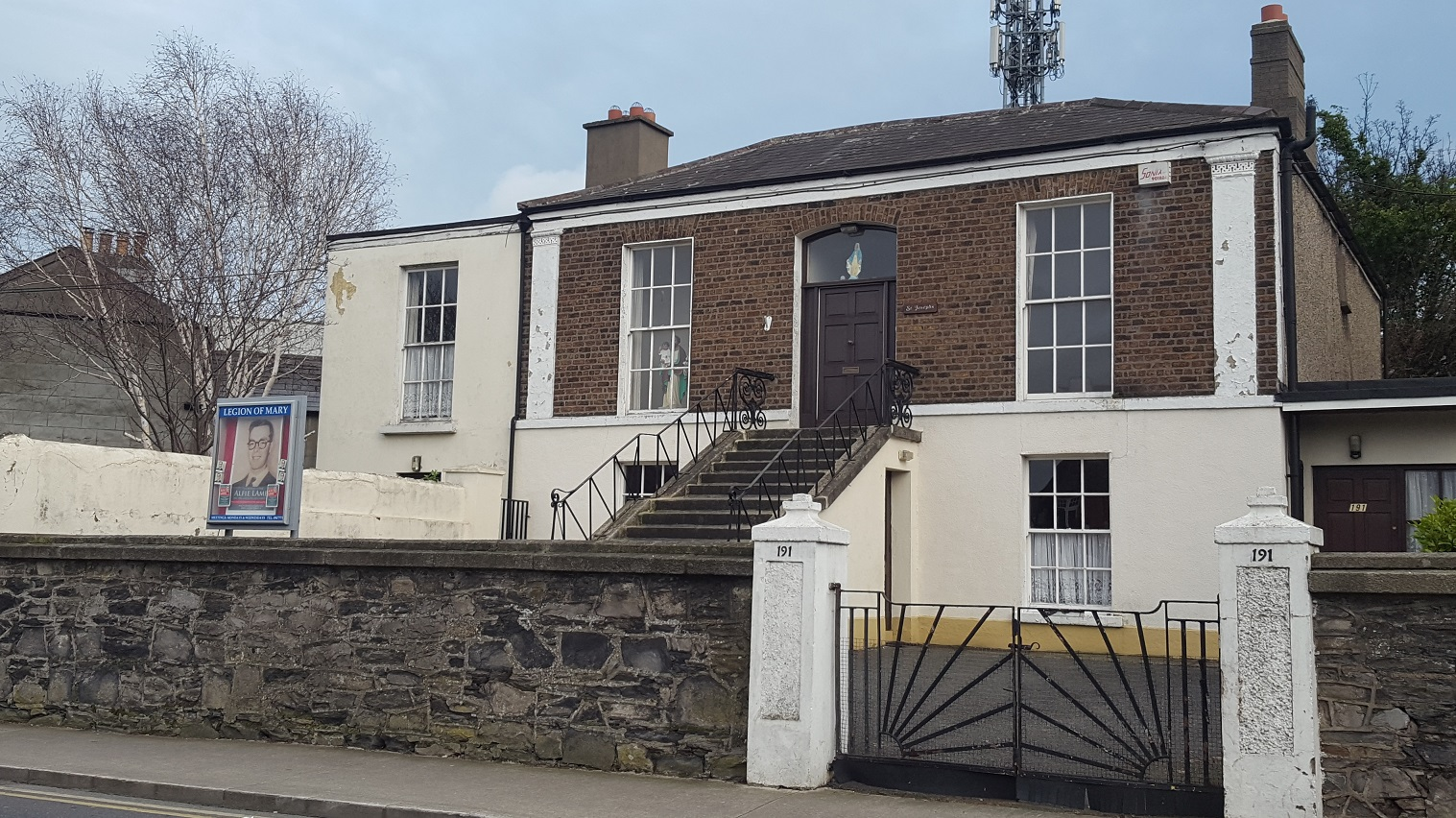 meeting place for prayer group